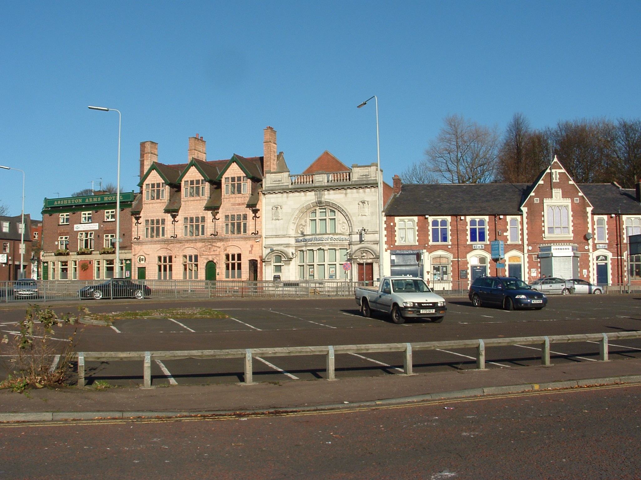 A row of buildings in Middleton, Greater Manchester, England. Second building from the left is by Edgar Wood, a prominent local architect. On the left is the Assheton Arms Pub. On the right the Royal Bank of Scotland and far right is an Italian Restaurant which for a long time was known as Jacques Wine Bar.